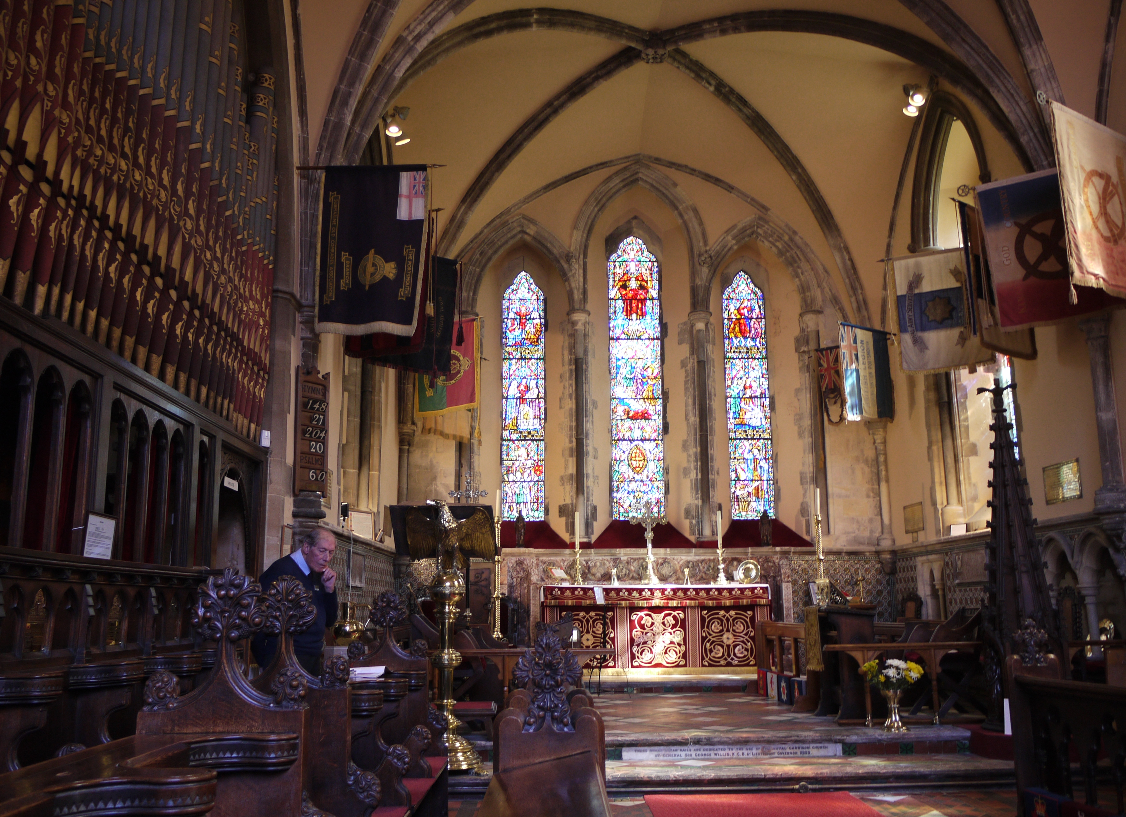 Photo of the Interior of Domus Dei church (the bit that still has a roof)